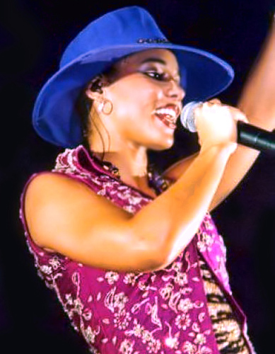 Alicia Keys live in Frankfurt